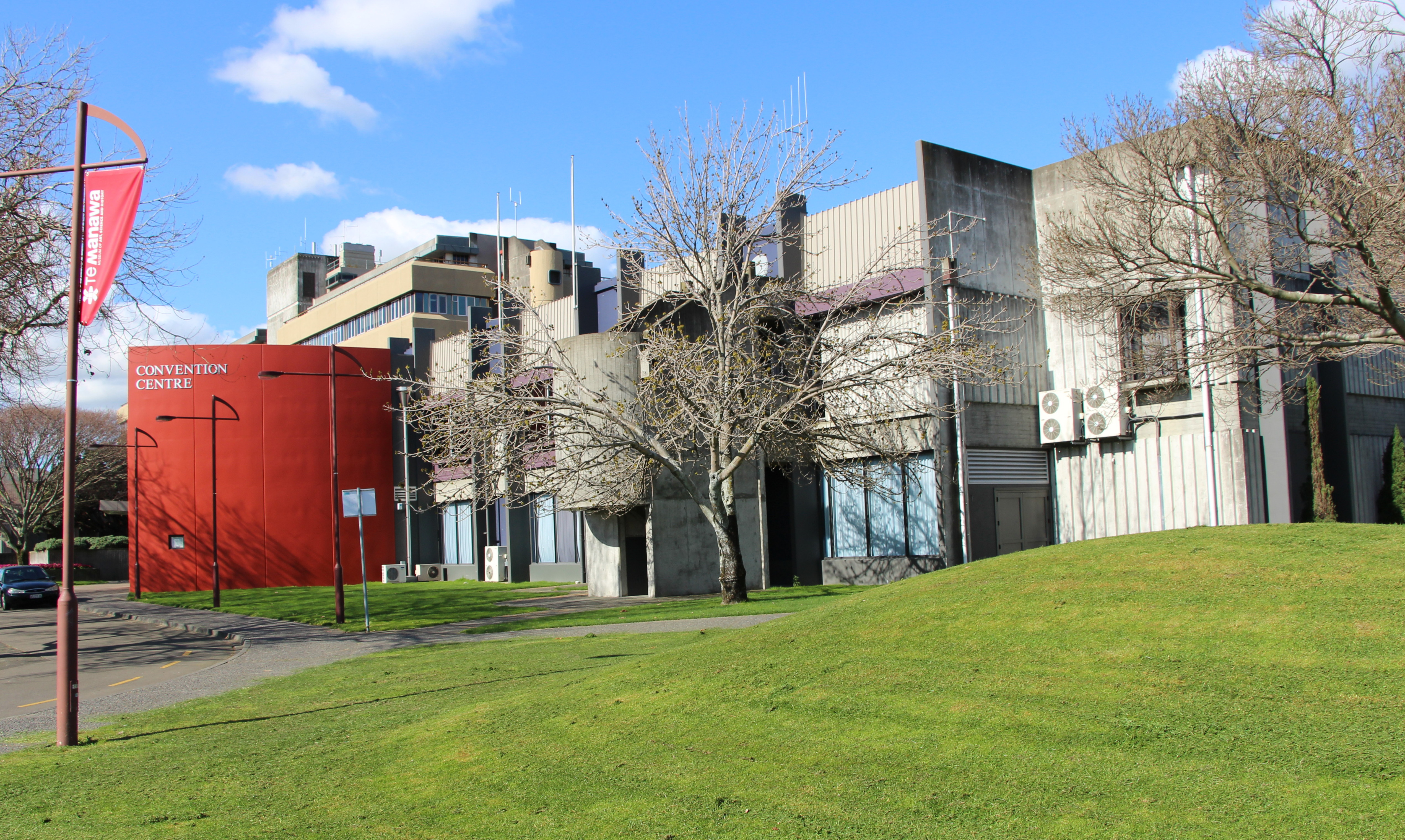 Palmerston North Convention Centre. Palmerston North, New Zealand